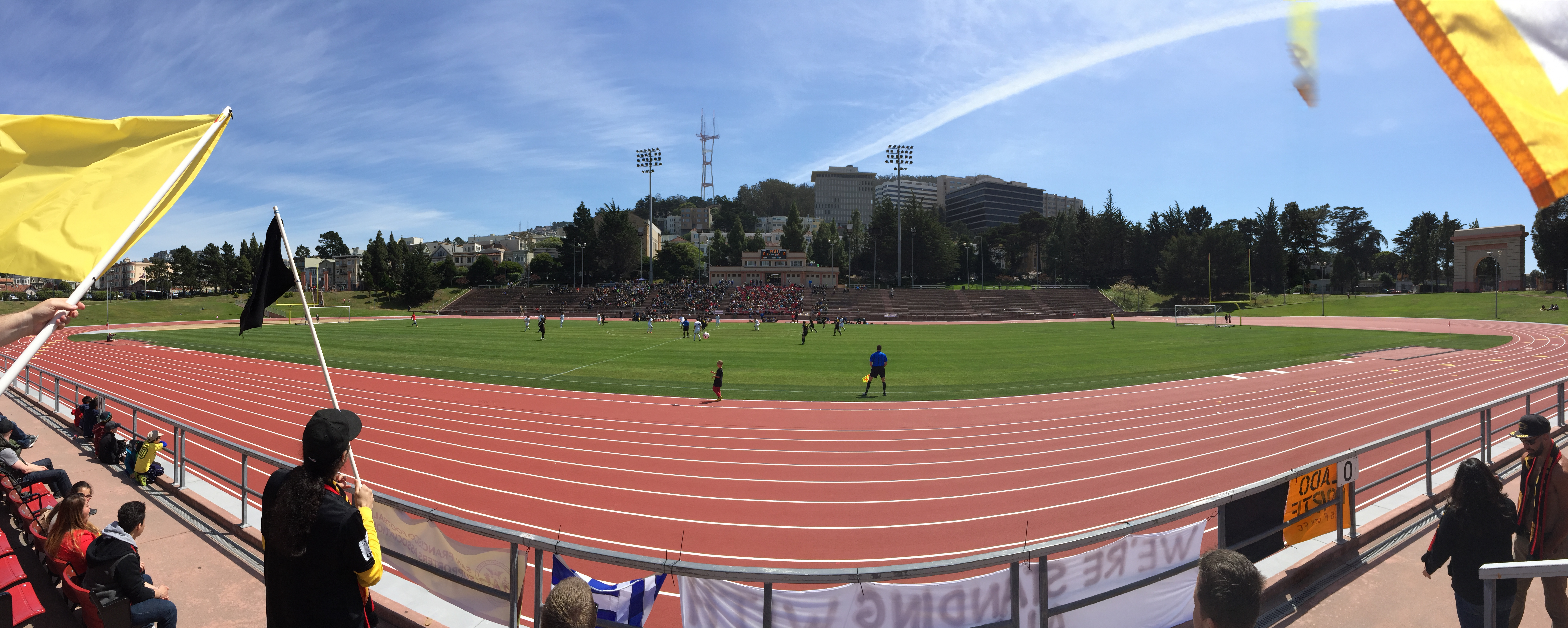 San Francisco City Football Club in Lamar Hunt US Open Cup action against Cal FC at Kezar Stadium in San Francisco, April 25, 2015.